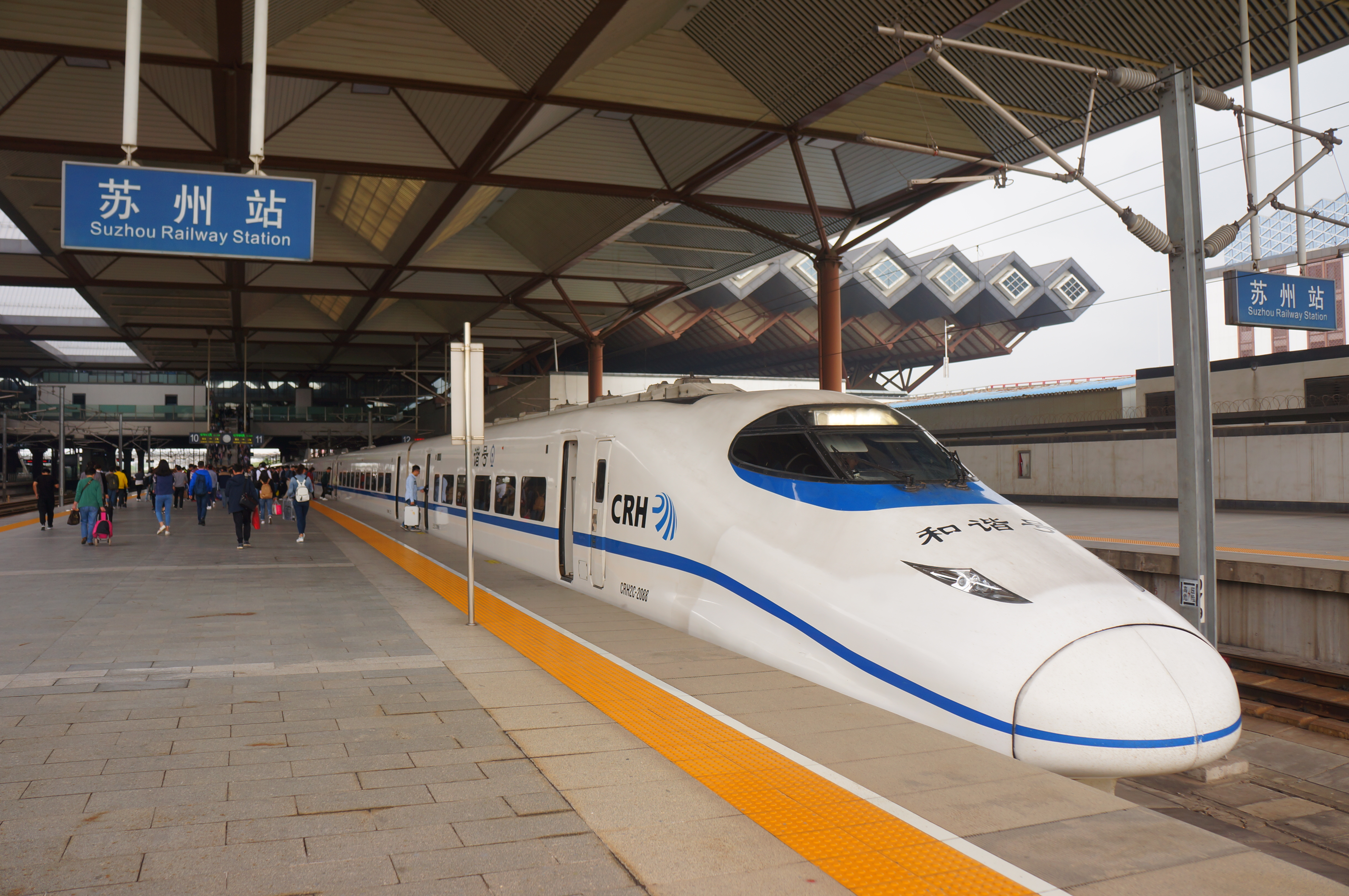 201705 CRH2C-2088 at Suzhou Station